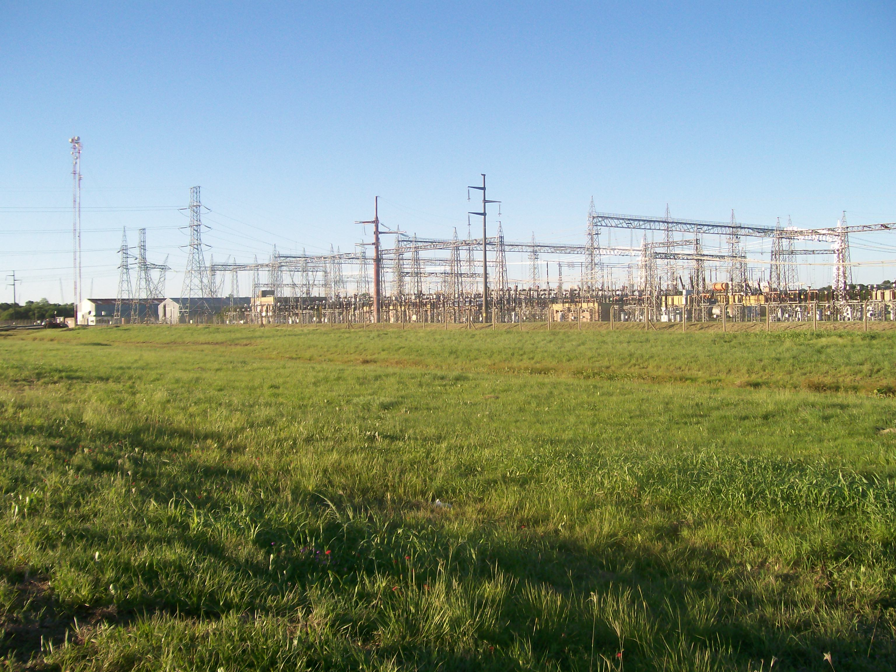 Transformer station in Puerto Bastiani, main electric station in Chaco Province, Argentina.